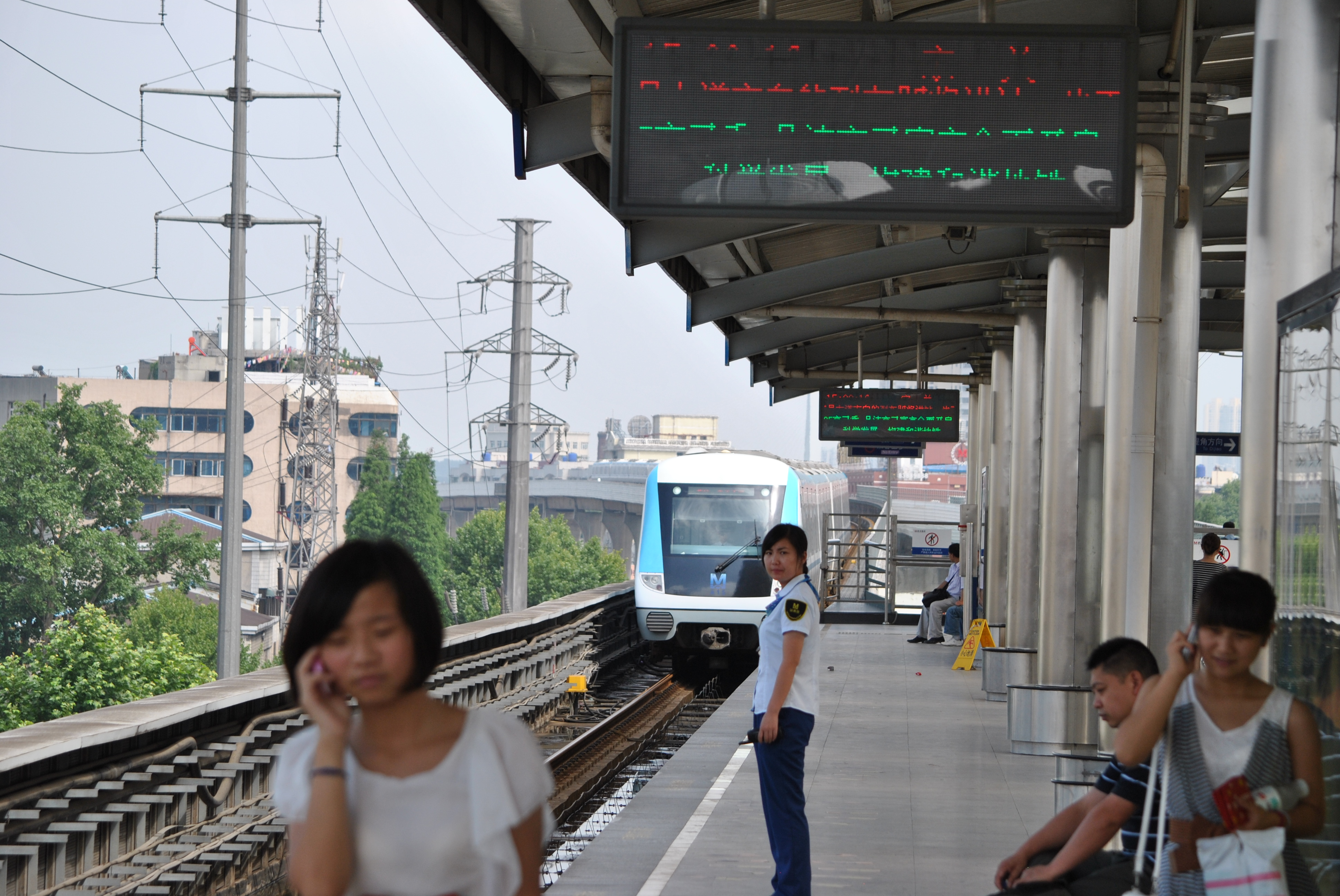 A metro station in Wuhan